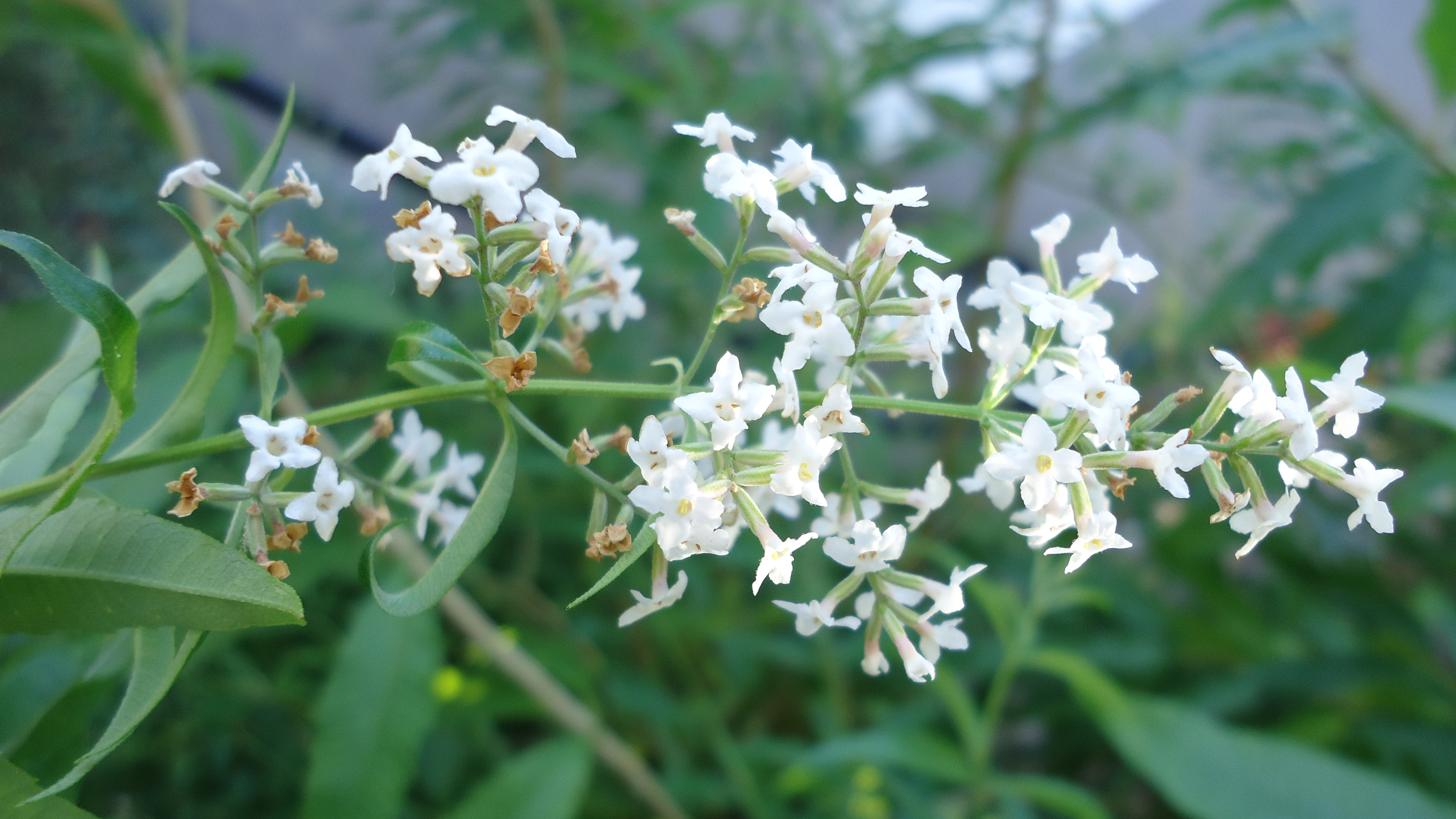 Flowers of Aloysia citrodora. Photography token in Buenos Aires Province, Argentina